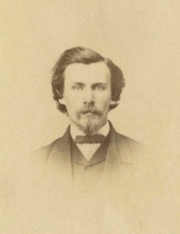 Confederate POW, 10th Arkansas Captain William W. Martin by Johnston Bros. 867 Broadway, New York.